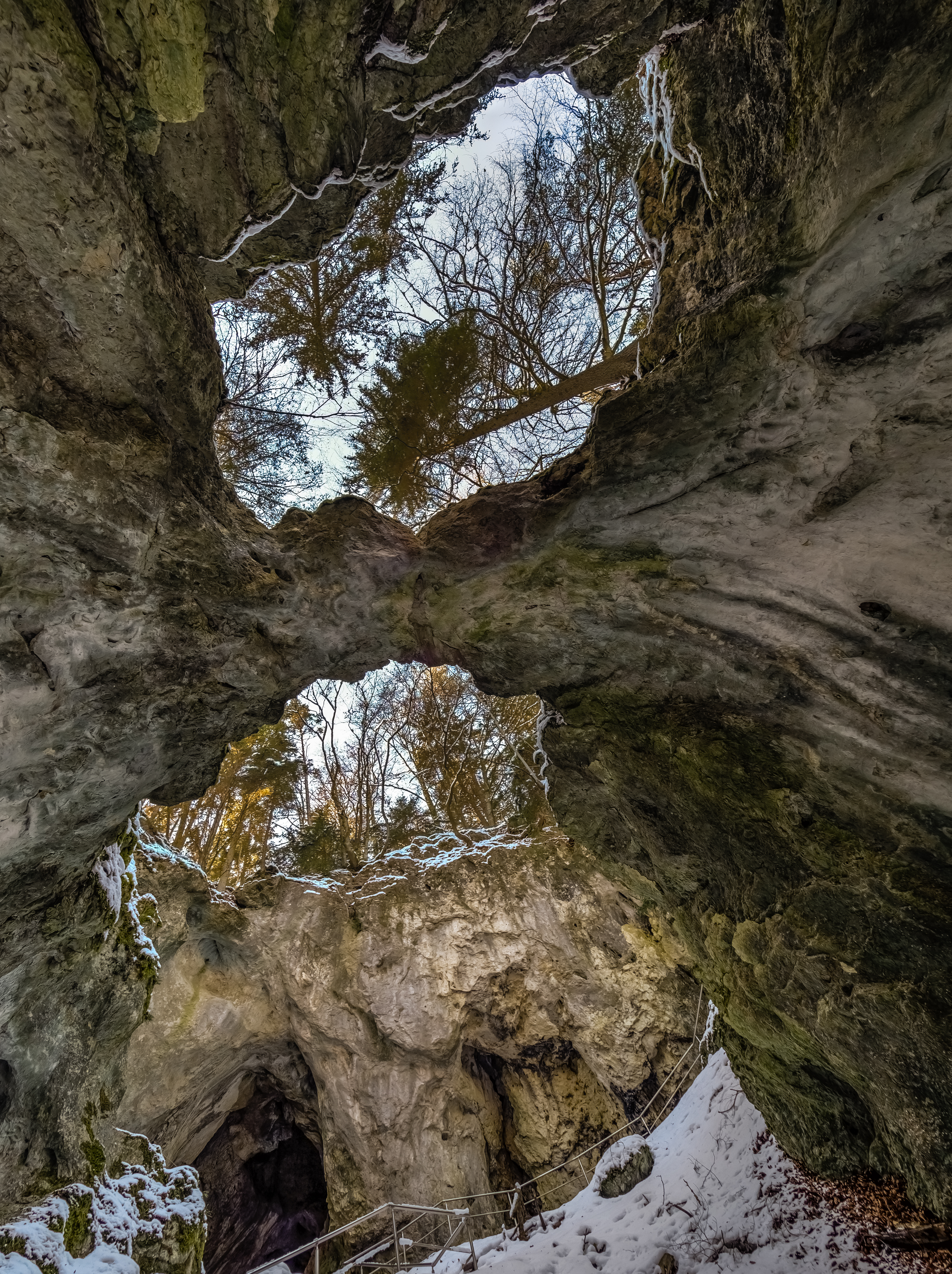 Riesenburg Cave in Franconia, Germany